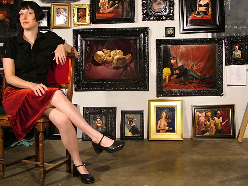 Artist Rachel Bess in her studio